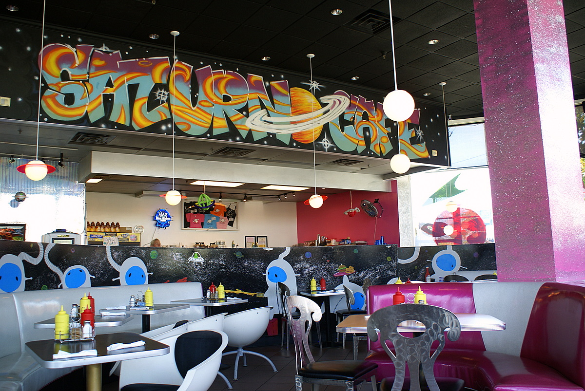 Saturn Cafe in Santa Cruz. A vegetarian restaurant with mutilated dolls under glass table tops.... of course we didn't know about this before we got here.